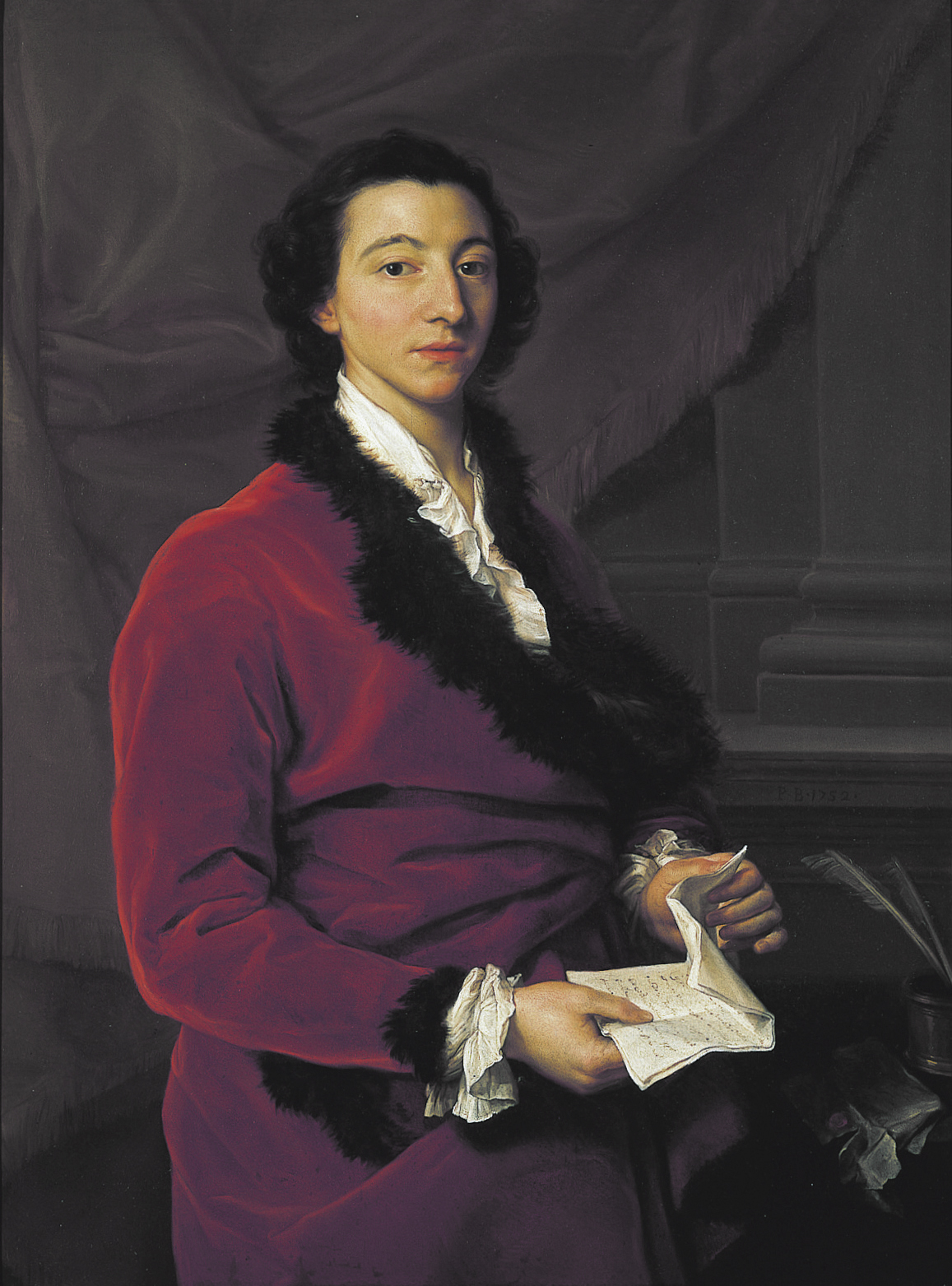 Ralph Howard, later 1st Viscount Wicklow (1726 ‑ 1786) oil on canvas 99.4 × 74.1 cm signed b.r.: P.B.1752.